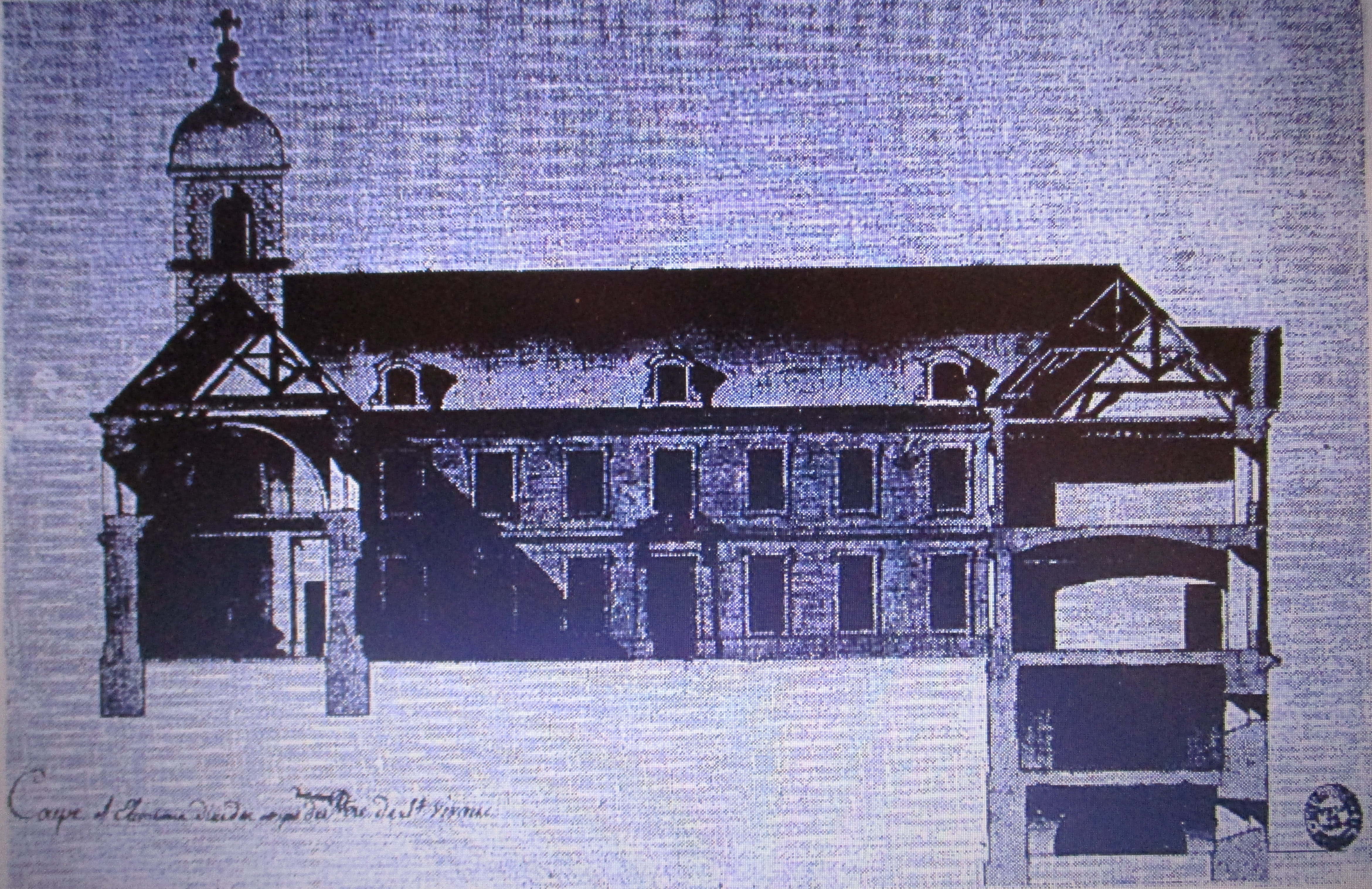 Saint-Vivant de Vergy abbey, Curtil-Vergy, Côte-d'Or, Burgundy, France. View in 1772. Picture at the town library in Dijon.